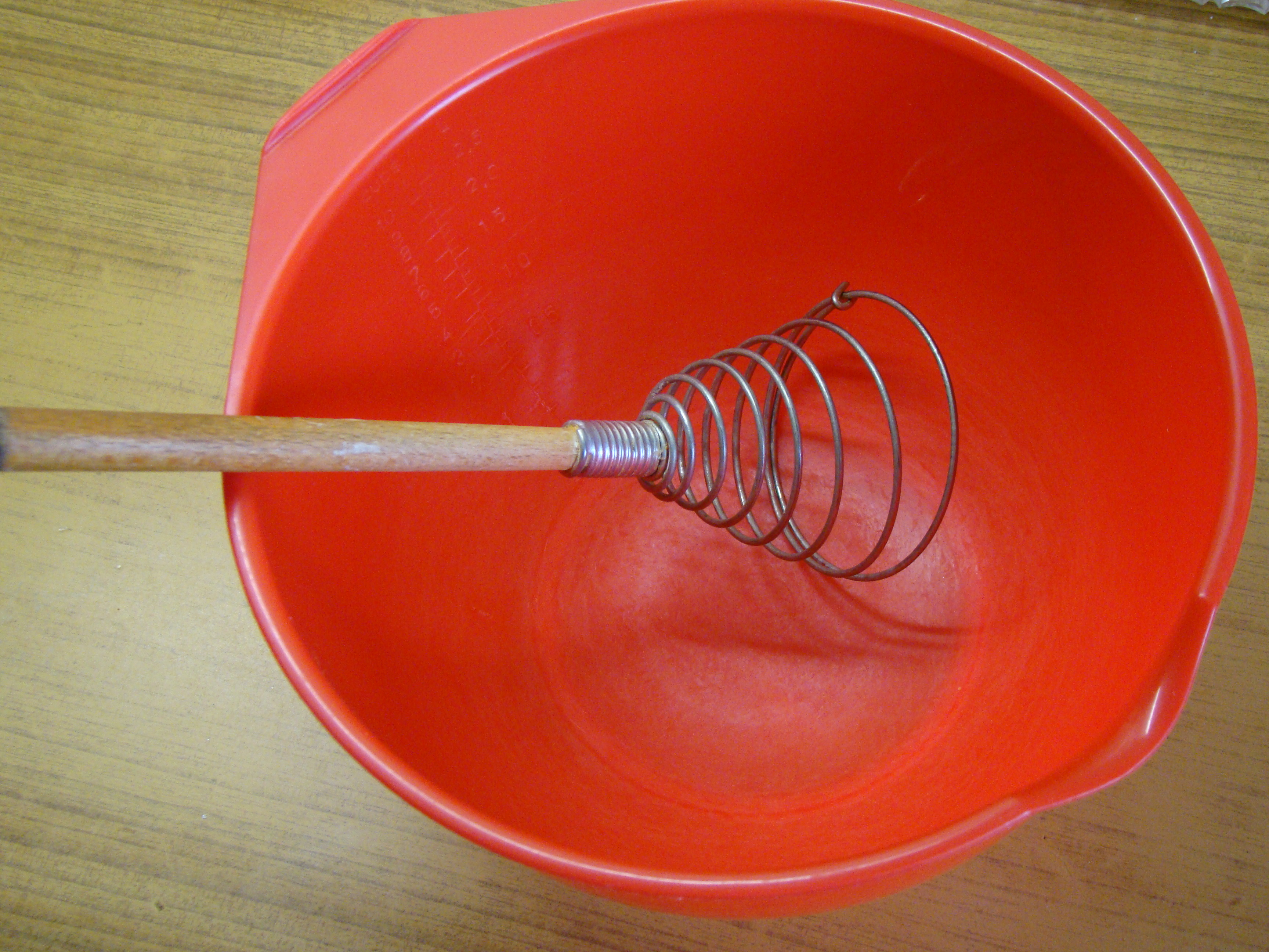 Egg whisk